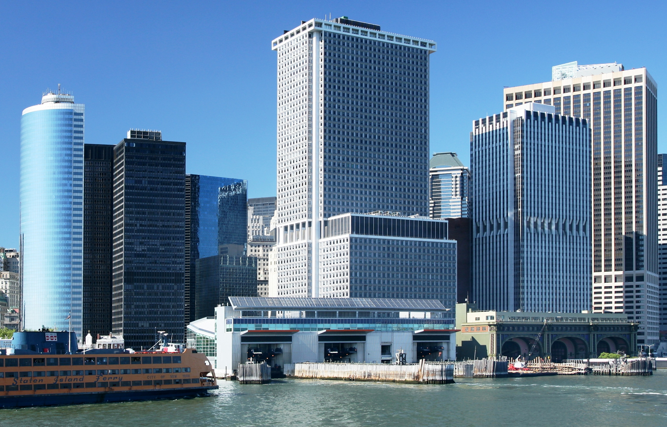 Staten Island Ferry terminal, Lower Manhattan